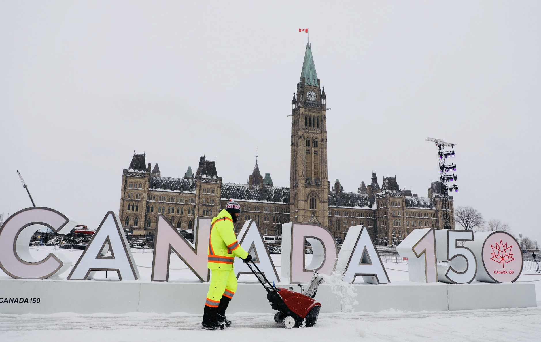 Winter's in full swing on Parliament Hill today!